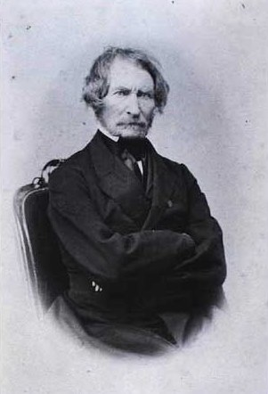 Lauritz Michael von Müllen (1800-1878), Danish army officer and politician, MP